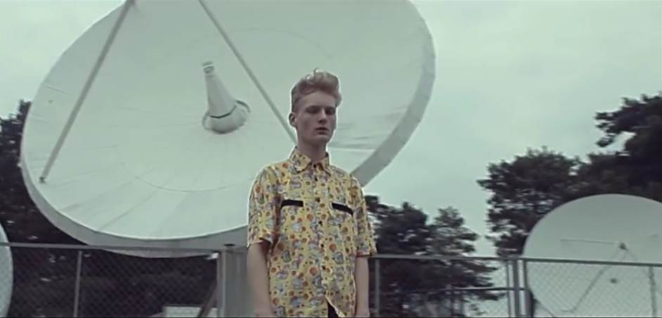 tainezmogus